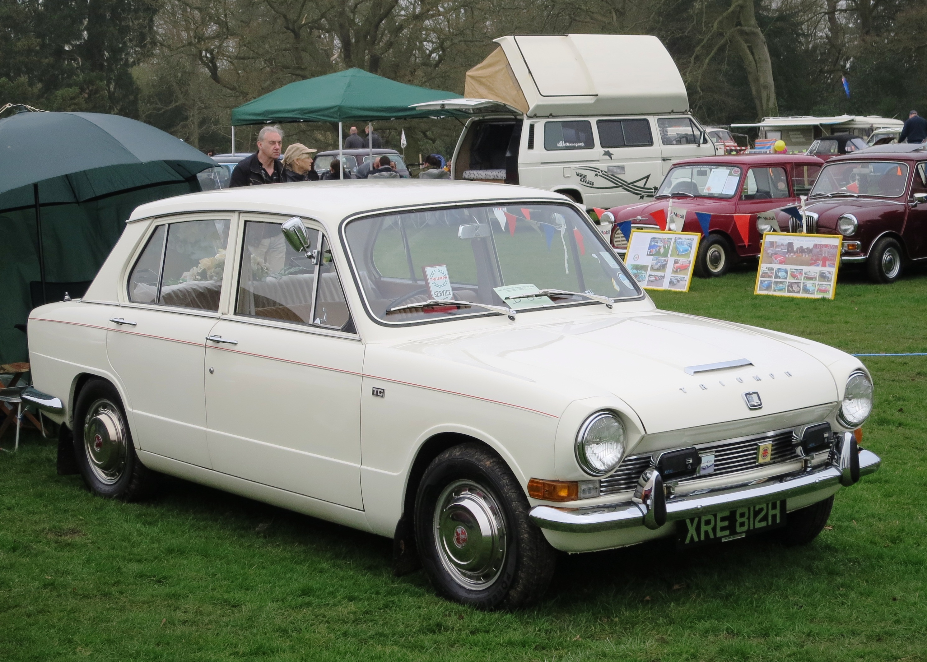 Triumph 1300 TC (1969)